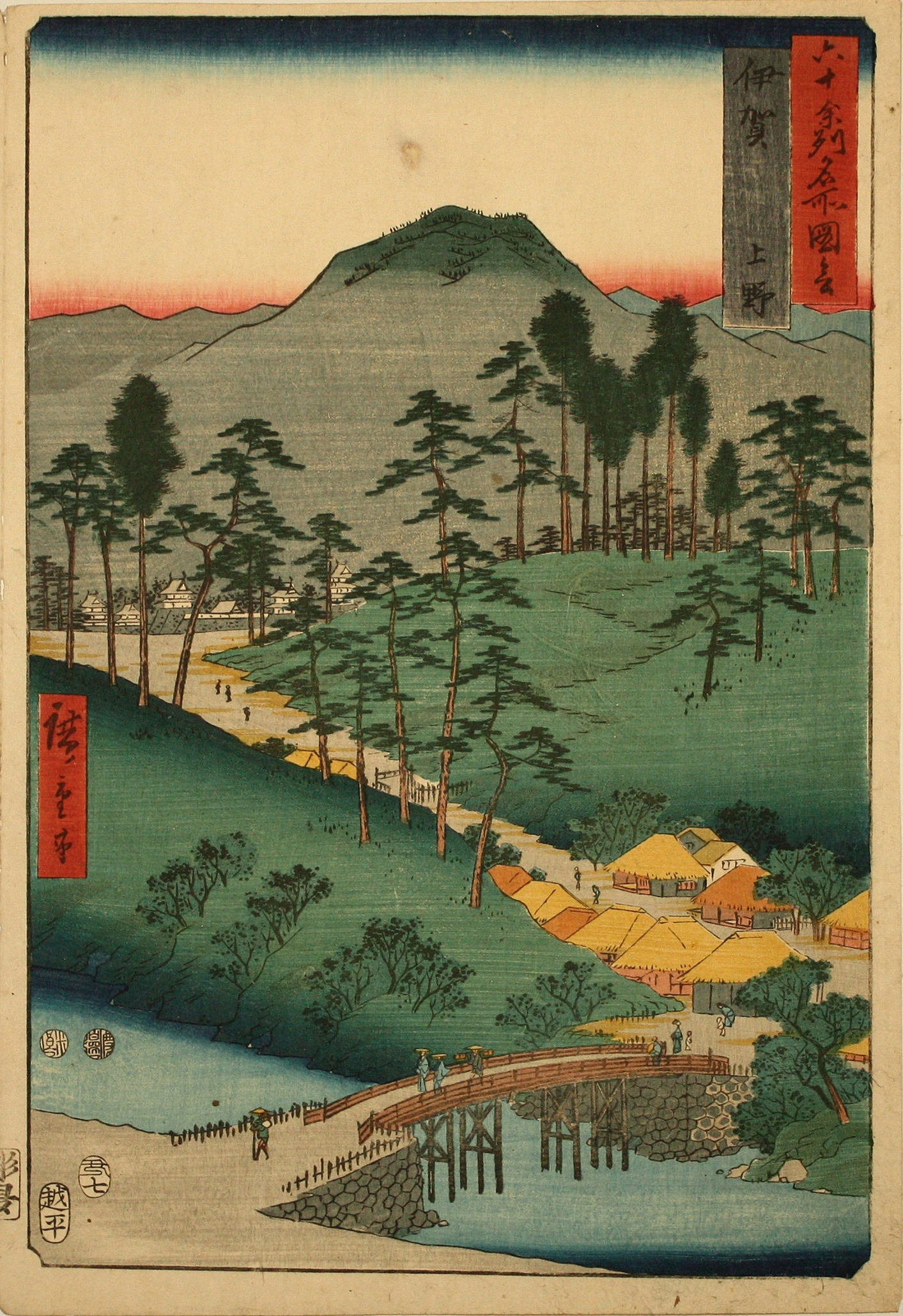 Igaueno of the Famous Scenes of the Sixty States.